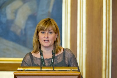 Bjørt Samuelsen, a Faroese politician